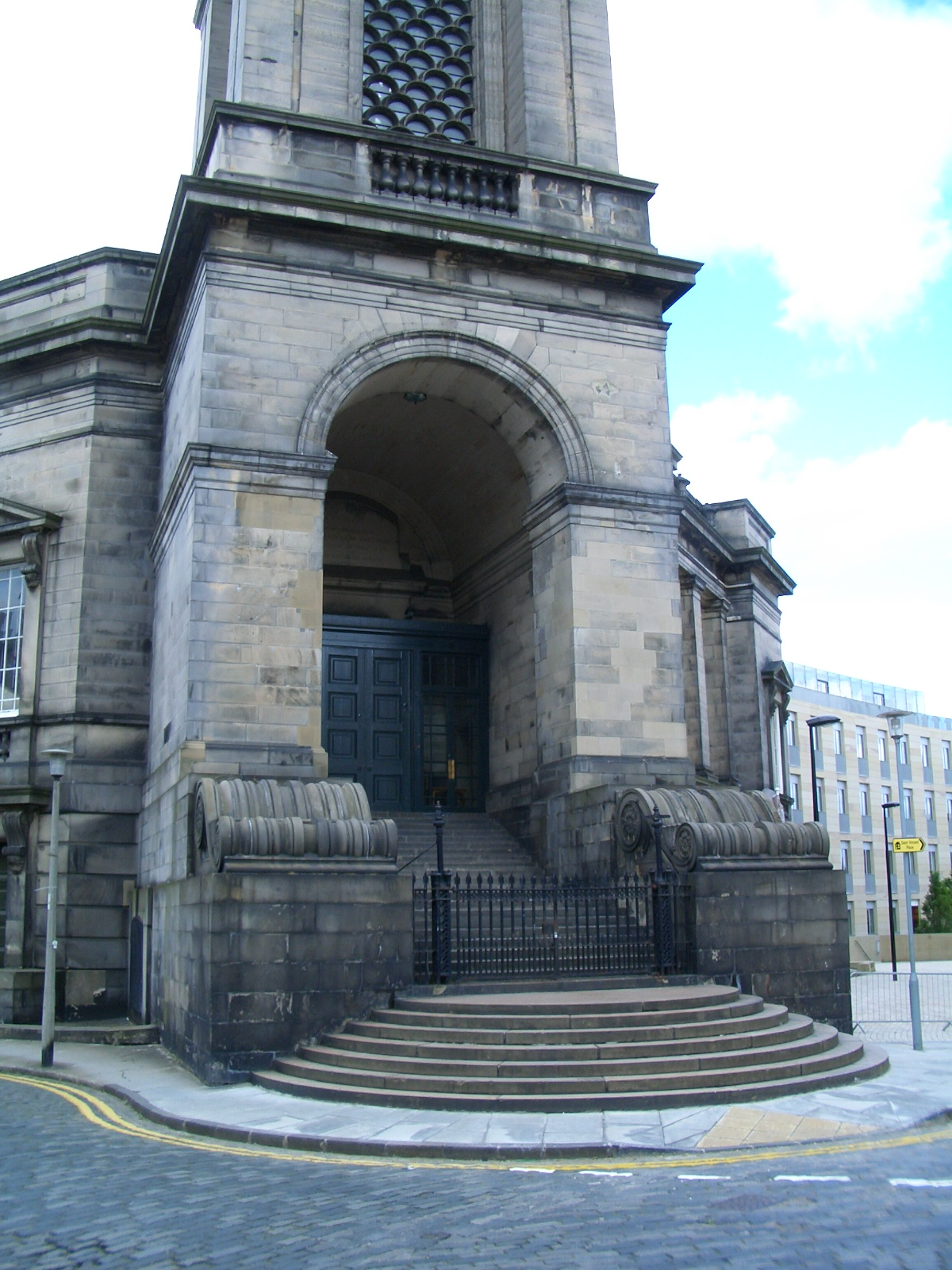 Entrance of St. Stephen's Church, Edinburgh